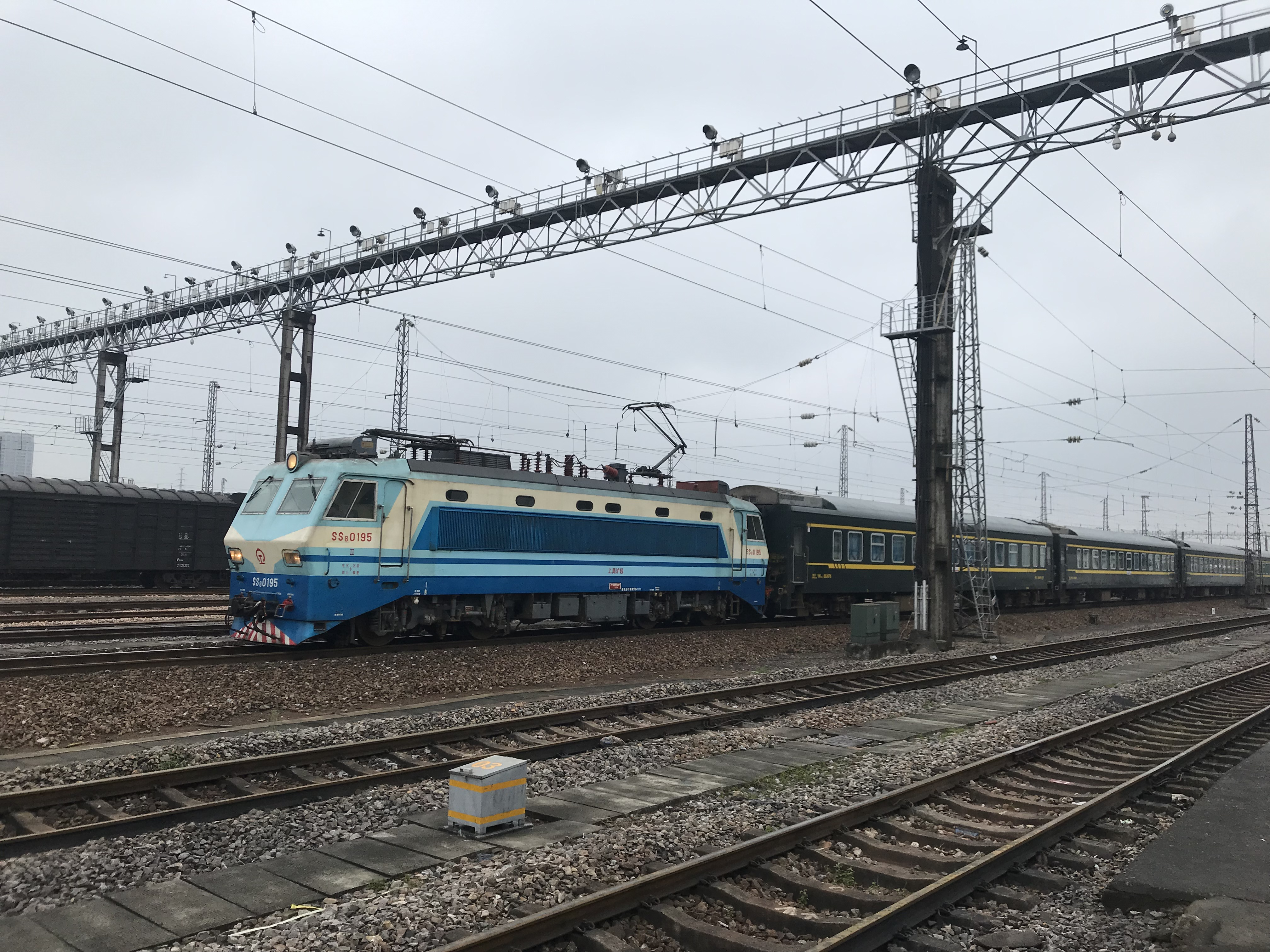 Taken beyond the barbed wire since there is a JWR DF4D on Track 1